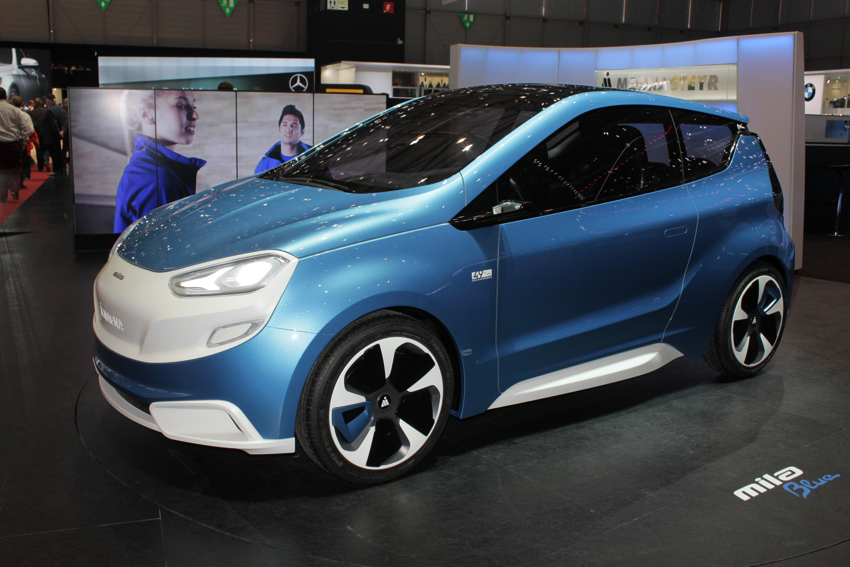 Magna Steyr Mila Blue at the 2014 Geneva Motorshow